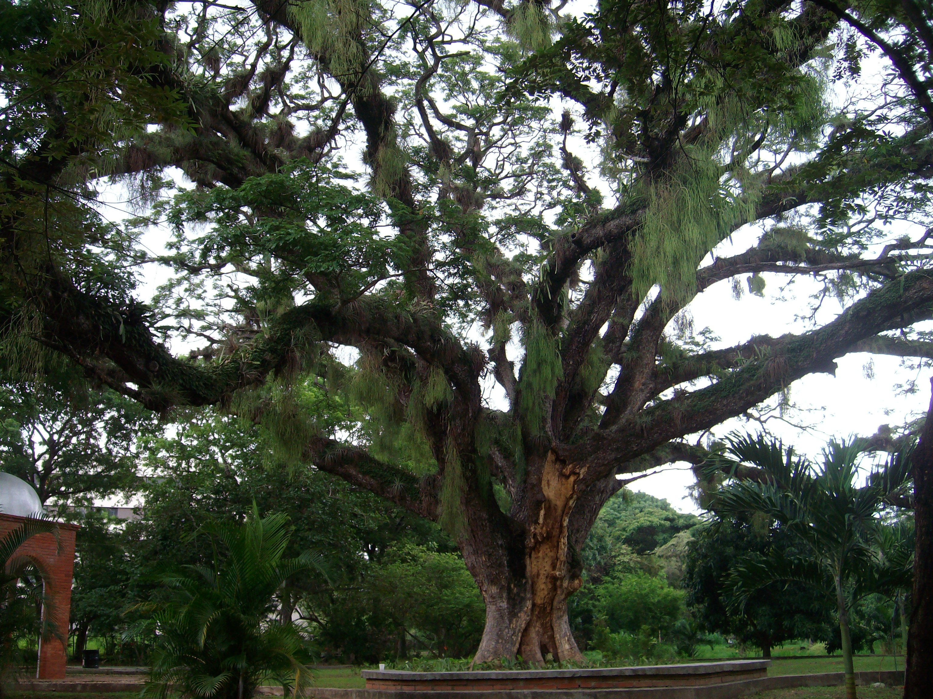 El samán de Naguanagua